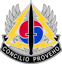 US Army insignia